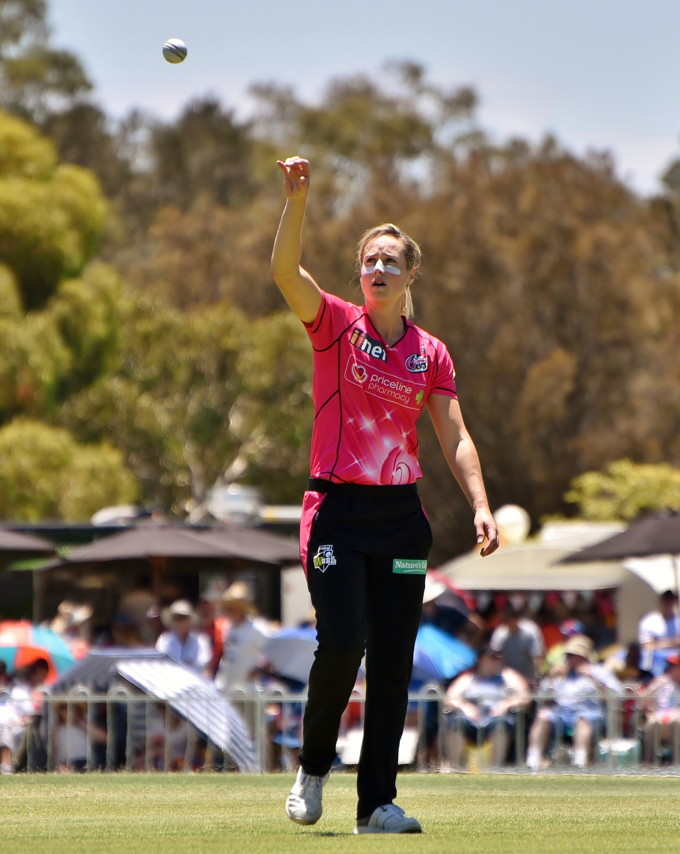 Sydney Sixers captain Ellyse Perry being thrown the ball during a 2018–19 Women's Big Bash League season match at Lilac Hill Park in Perth against the Perth Scorchers